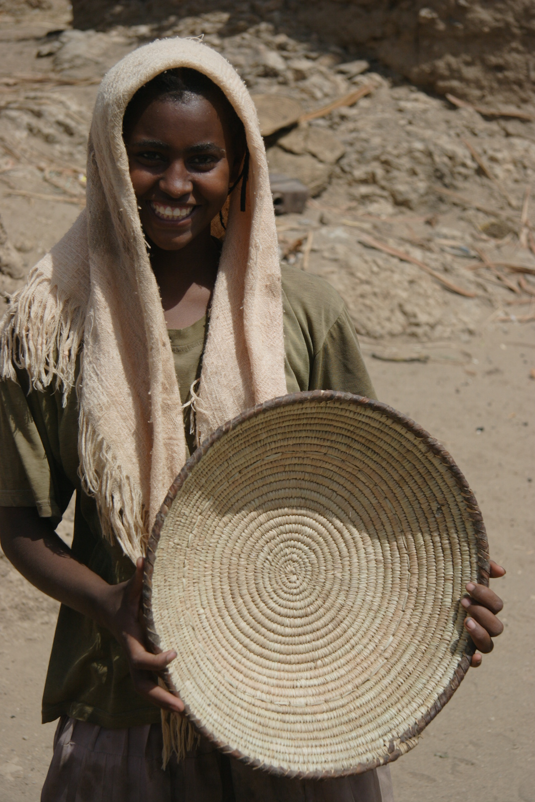 Manasir girl demonstration a Tabaq plaited by her from Dum palm leaflets and leather. Khaliwah on Sur Island in Dar al-Manasir, Northern Sudan (c) GFDL David Haberlah (Homepage of David Haberlah, )